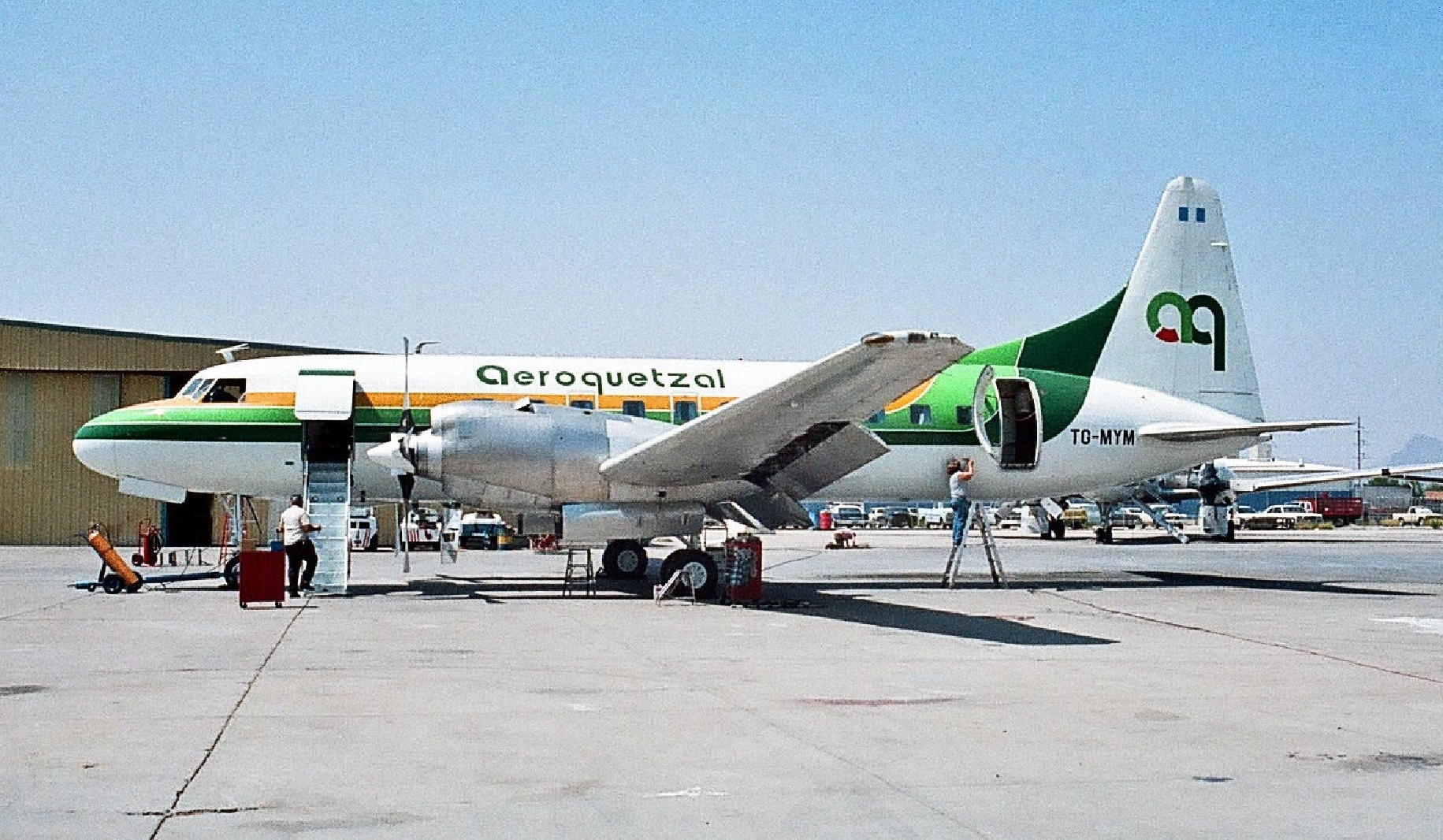 Convair CV-580 TG-MYM Aeroquetzal TUS 14.9.1987